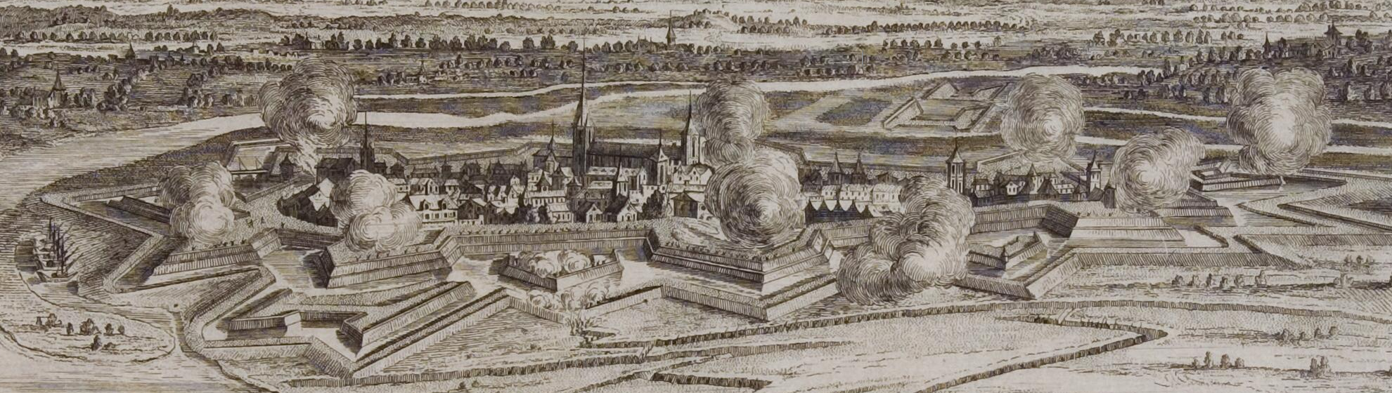 Part of bigger drawing "Siege of Doesburg by the French in 1672" Netherlands